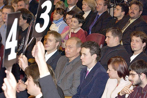 Vladimir Putin at the popular Russian TV show KVN.